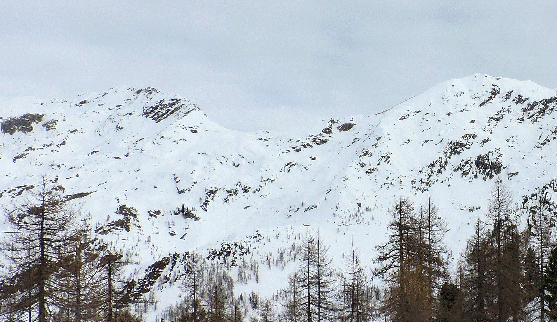 Colle Gragliasca (AO/BI, Italy) fron Punta Leretta